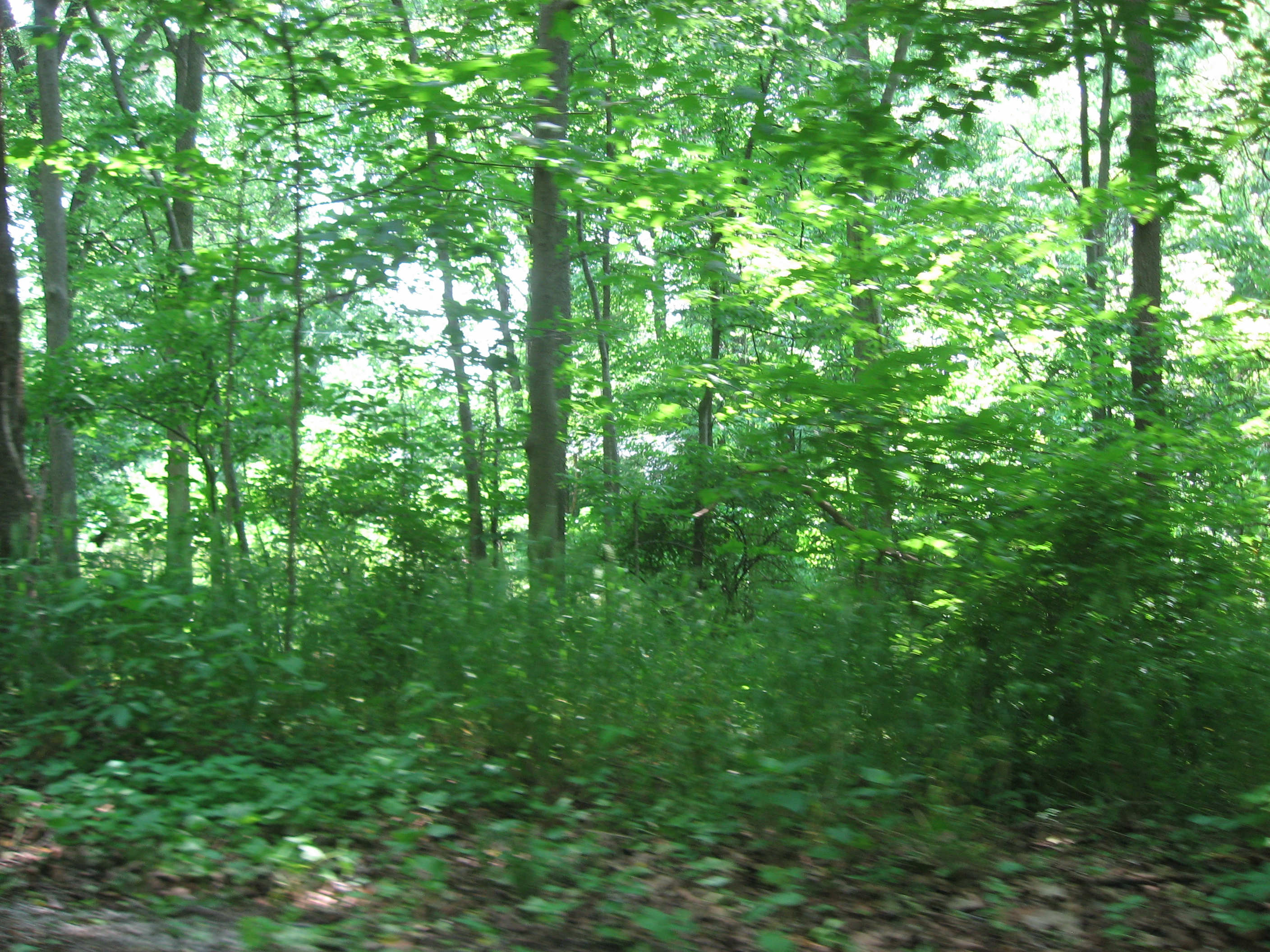 Site of the Burris House, located along Towpath Road at Lockport in Adams Township, Carroll County, Indiana, United States. Built in 1838 and since destroyed, the house and the nearby Potawatomi Spring are listed together on the National Register of Historic Places.